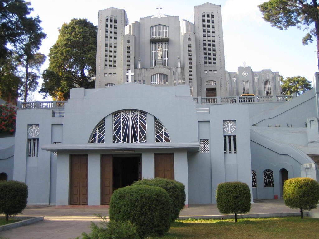 The Cathedral of Mary Help of Christians, Shillong is one of the largest in Asia. Photo by Javed Rahman.